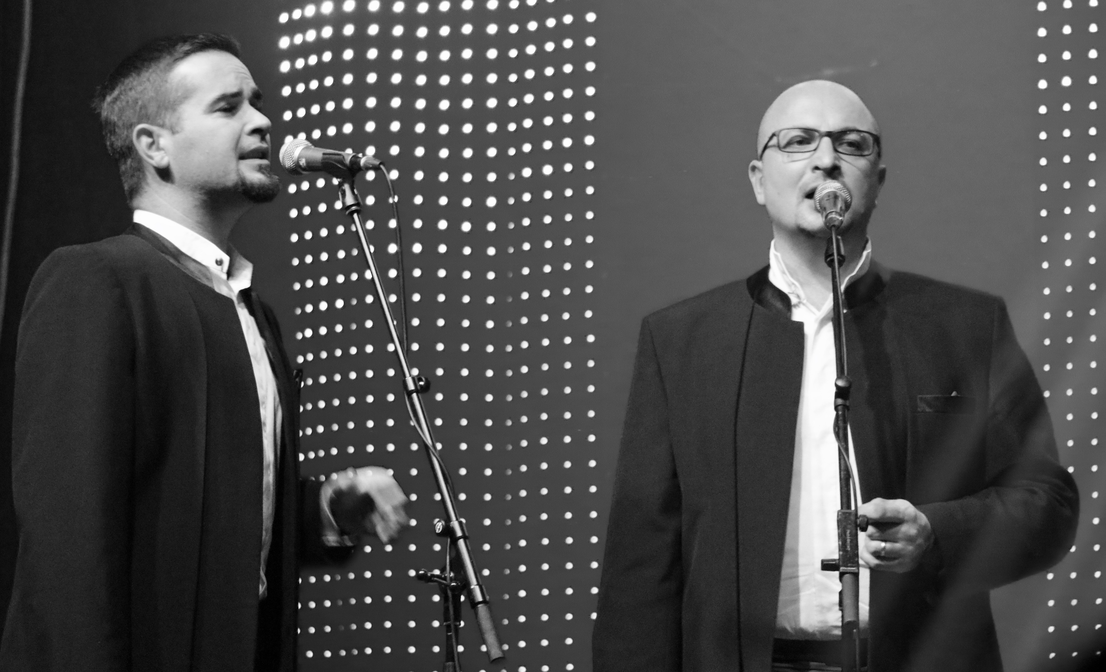 First tenor and second tenor members of Klapa Šufit, performing in Slovenia, 2016.